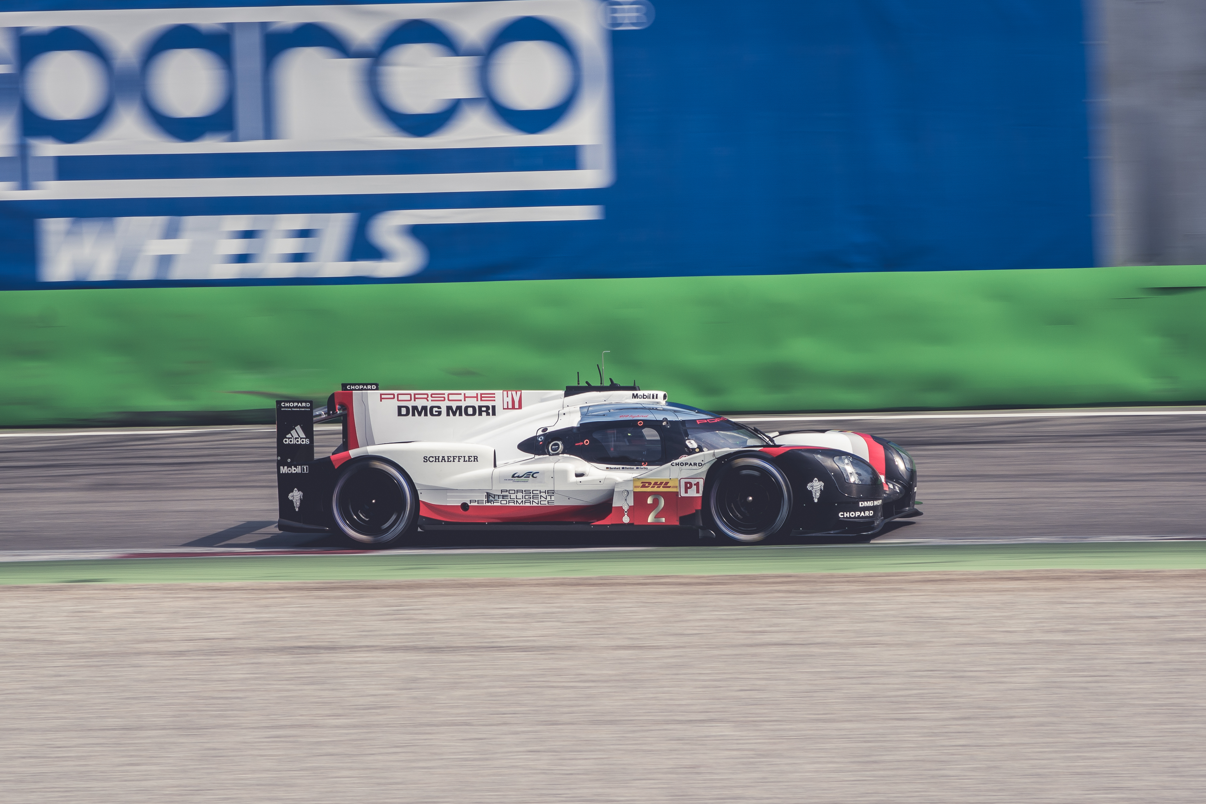 Pietro De Grandi 2017-05-09